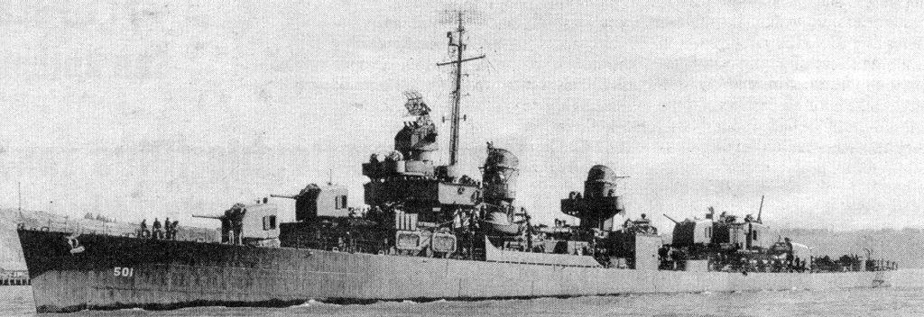 The U.S. Navy destroyer USS Schroeder (DD-501) underway, circa in 1943.